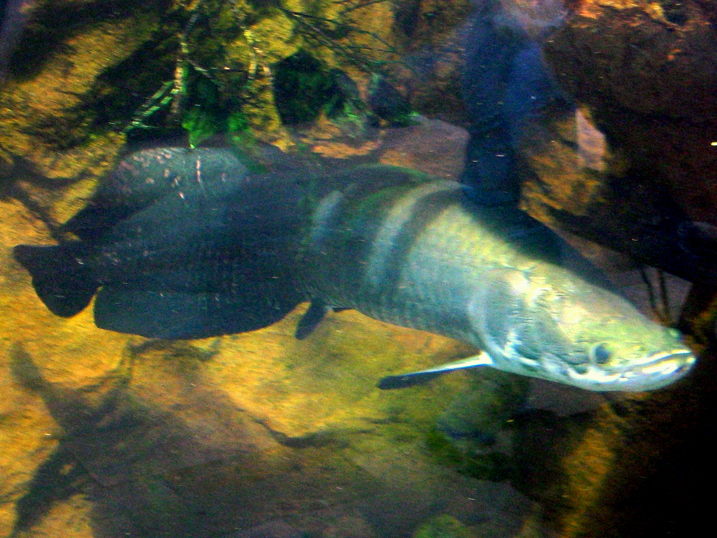 Large Arapaima at the Shedd Aquarium, Chicago.